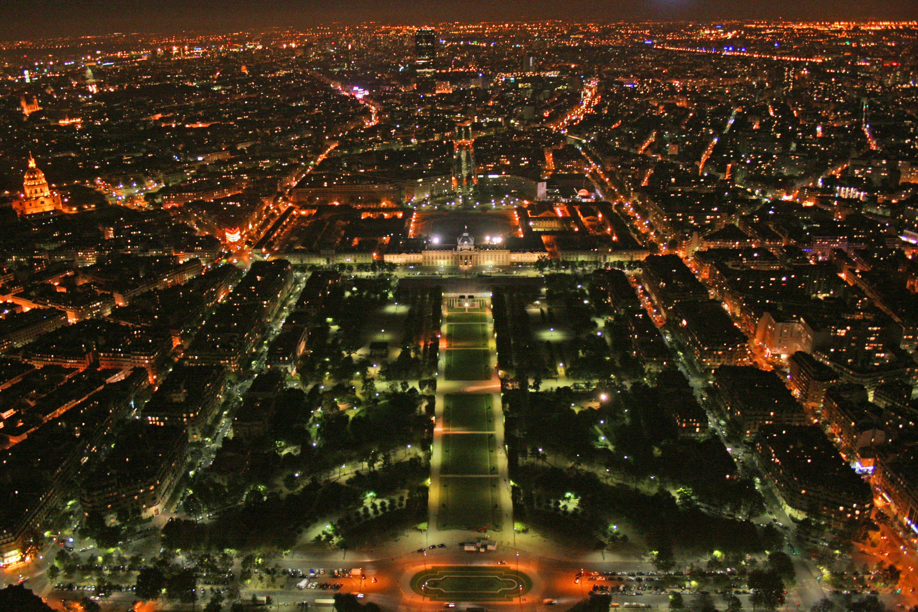 Champ-de-Mars from Tour Eiffel